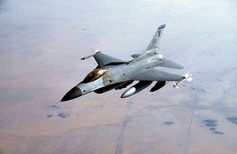 An air-to-air view of USAF F-16C block 25 #85-1405 from the 10th TFS armed with Mark 84 2,000-pound bombs mounted under its wings and AIM-9 Sidewinder air-to-air missiles on its wing tips during the second wave of air attacks on Iraqi targets in support of Operation Desert Storm on January 17, 1991. [USAF photo by TSgt. Perry Heimer]